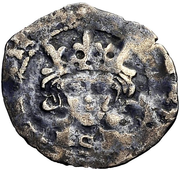 Richard III penny